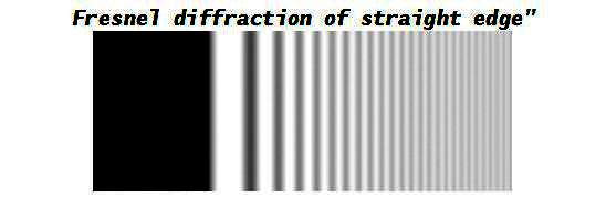 Fresnel diffraction of straight edge density plot